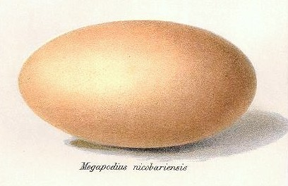 Megapodius nicobariensis (Nicobar Megapode)